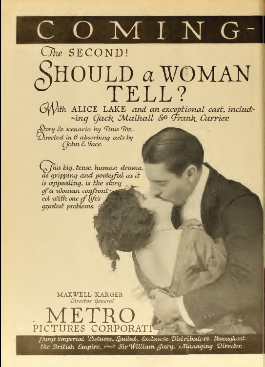 Ad for the American drama film Should a Woman Tell? (1919).